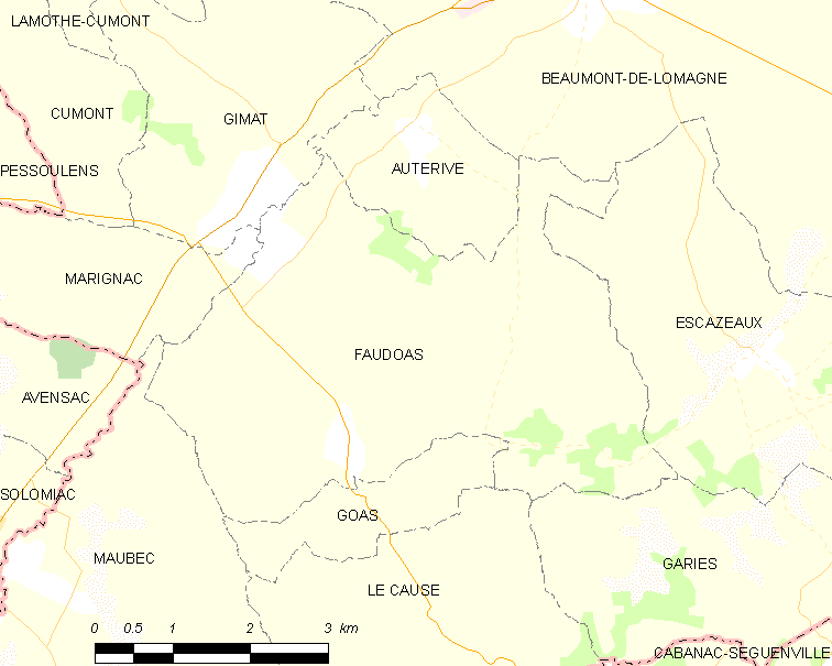 Map of French municipality Faudoas